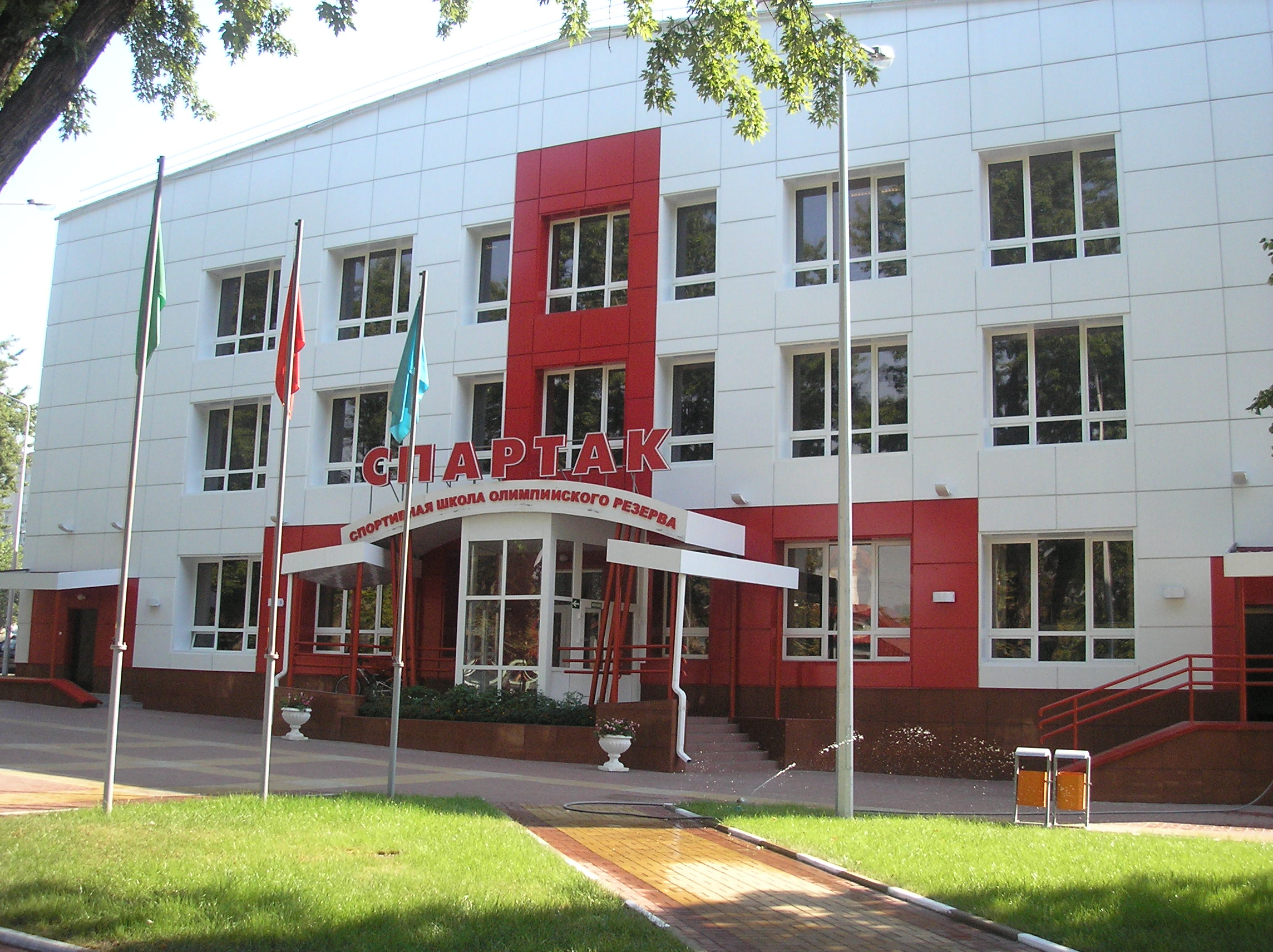 Спортивный центр Спартак. г. Белгород